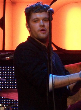 Daniel Merriweather performs live at - Orange Rockcorps